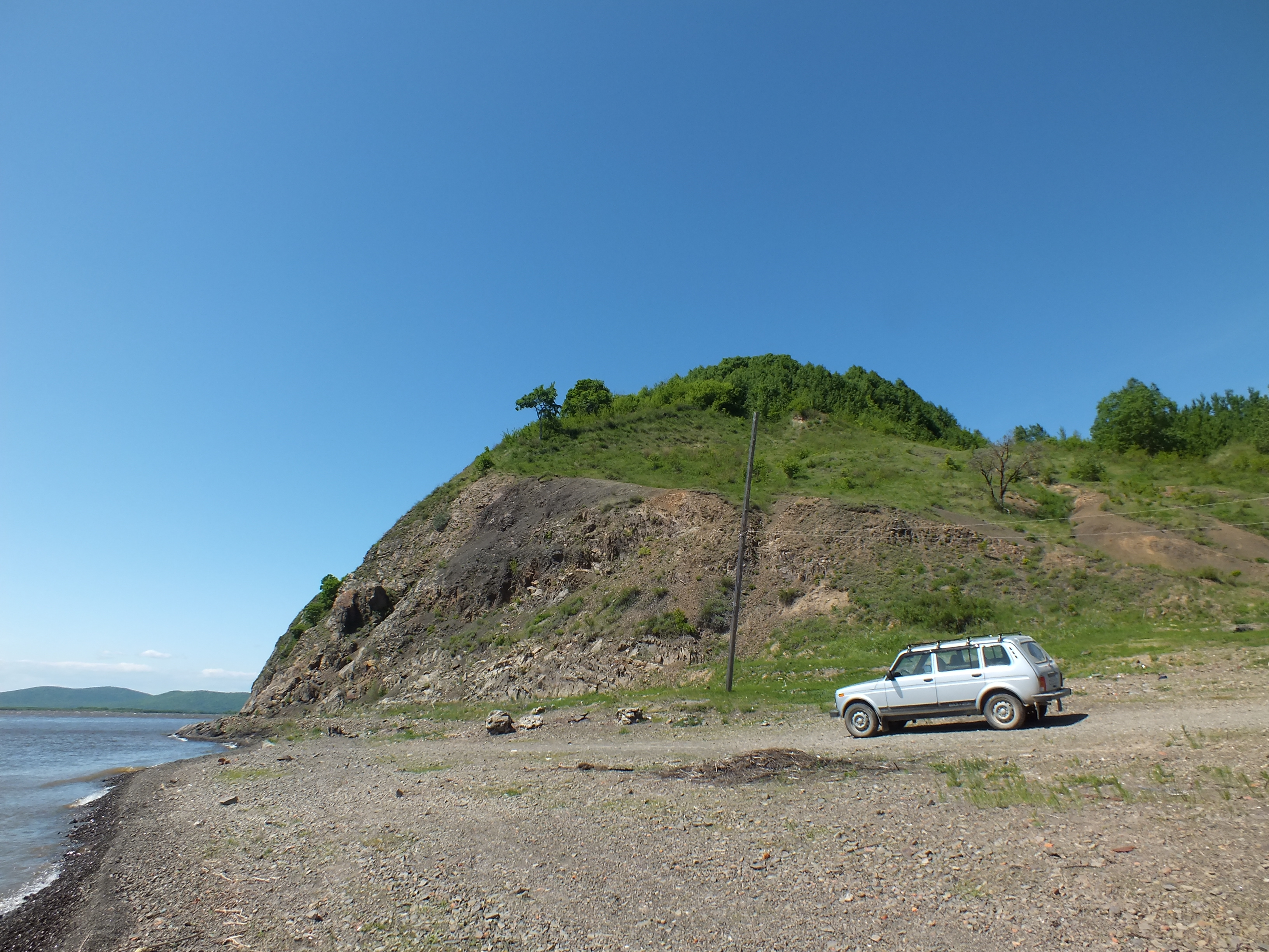 Malmyzh Nanayskiy rayon